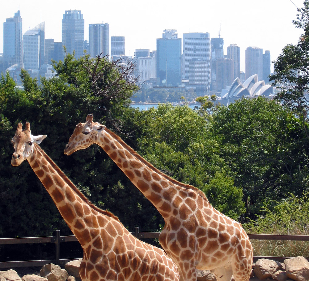 Giraffes (Giraffa camelopardalis) in the Taronga Zoo, Sydney, Australia.